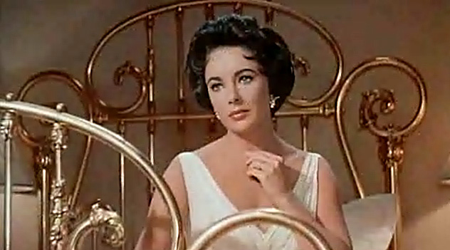 Screenshot of Elizabeth Taylor from the trailer for the film Cat on a Hot Tin Roof (film)